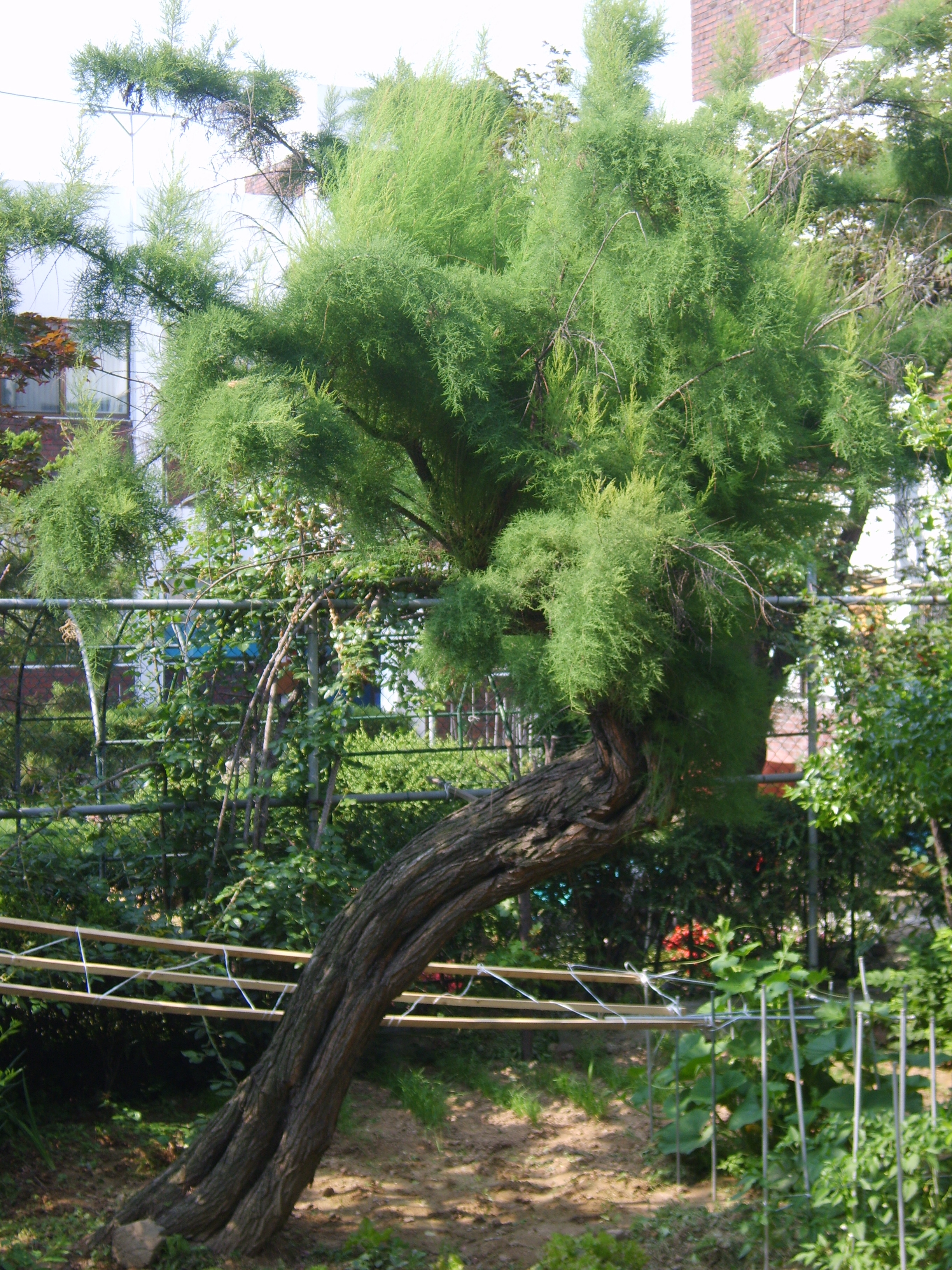 Tamarix chinensis in Bupyung, Korea